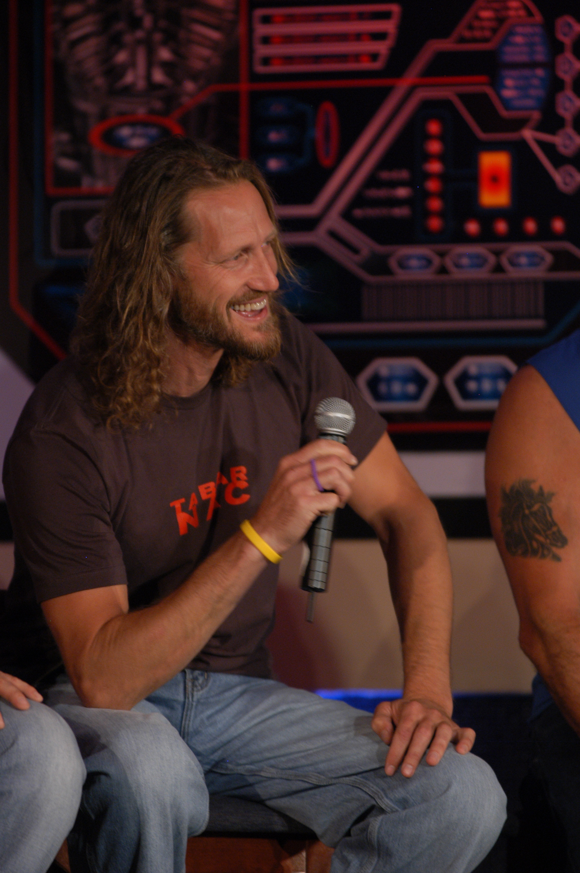 Christopher Heyerdahl at the Gatecon 2005 convention in Vancouver (Canada).